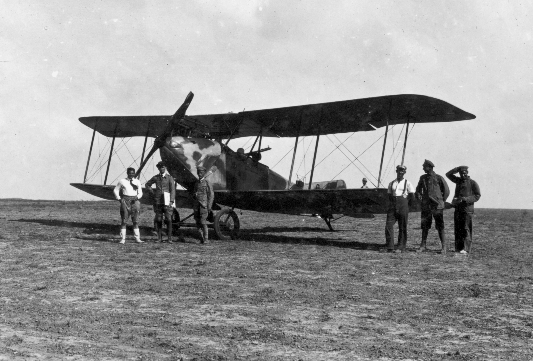 A German AEG C.IV of Flieger Abteilung 300 on the airfield at Huj, 15 km north-east of Gaza.